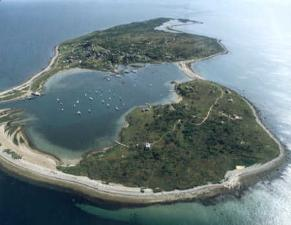 Oblique Aerial picture of Cuttyhunk Islands, Elizabeth Islands, Dukes County, Massachusetts